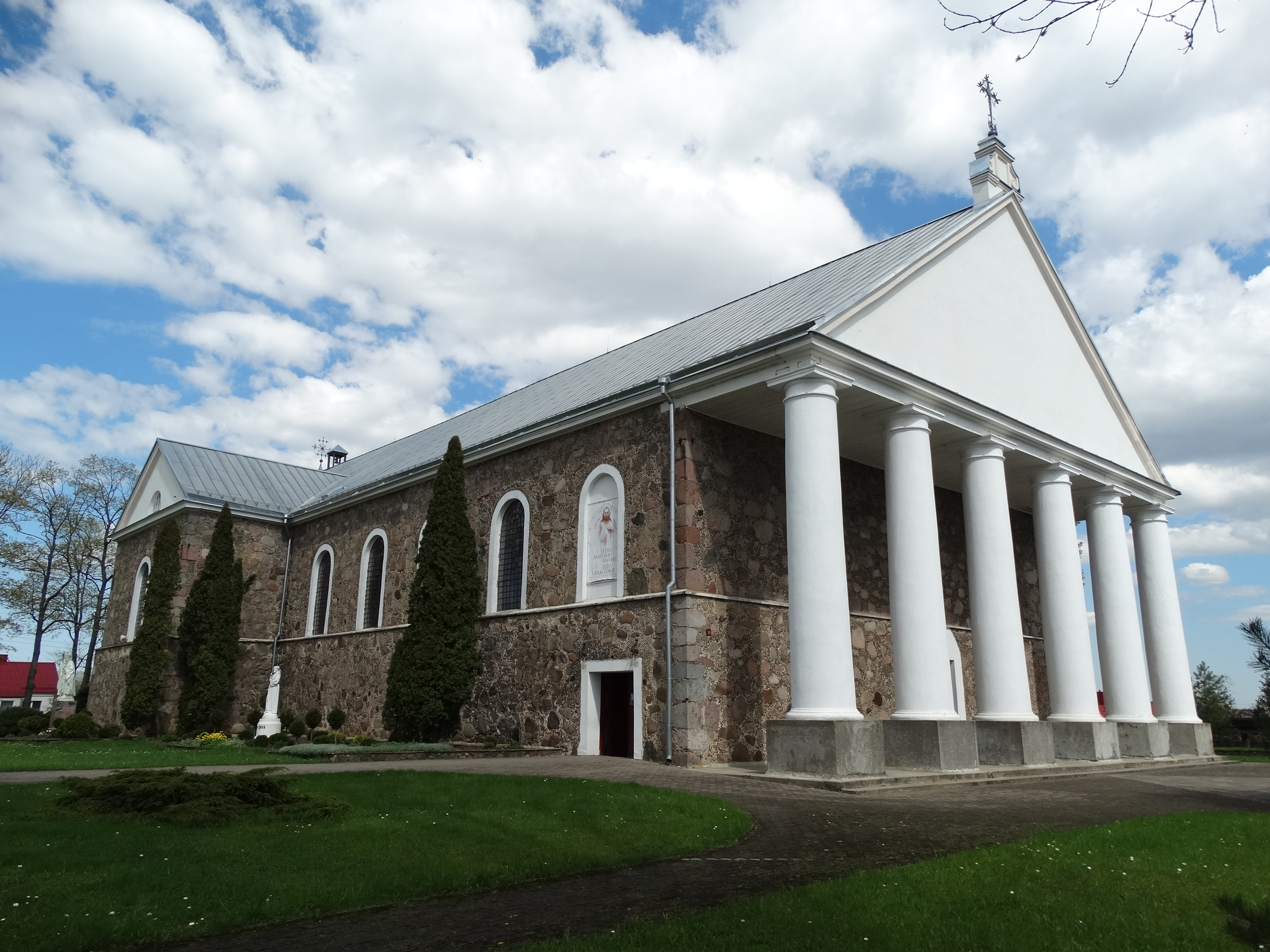 Catholic Church, Eišiškės, Šalčininkai District, Lithuania